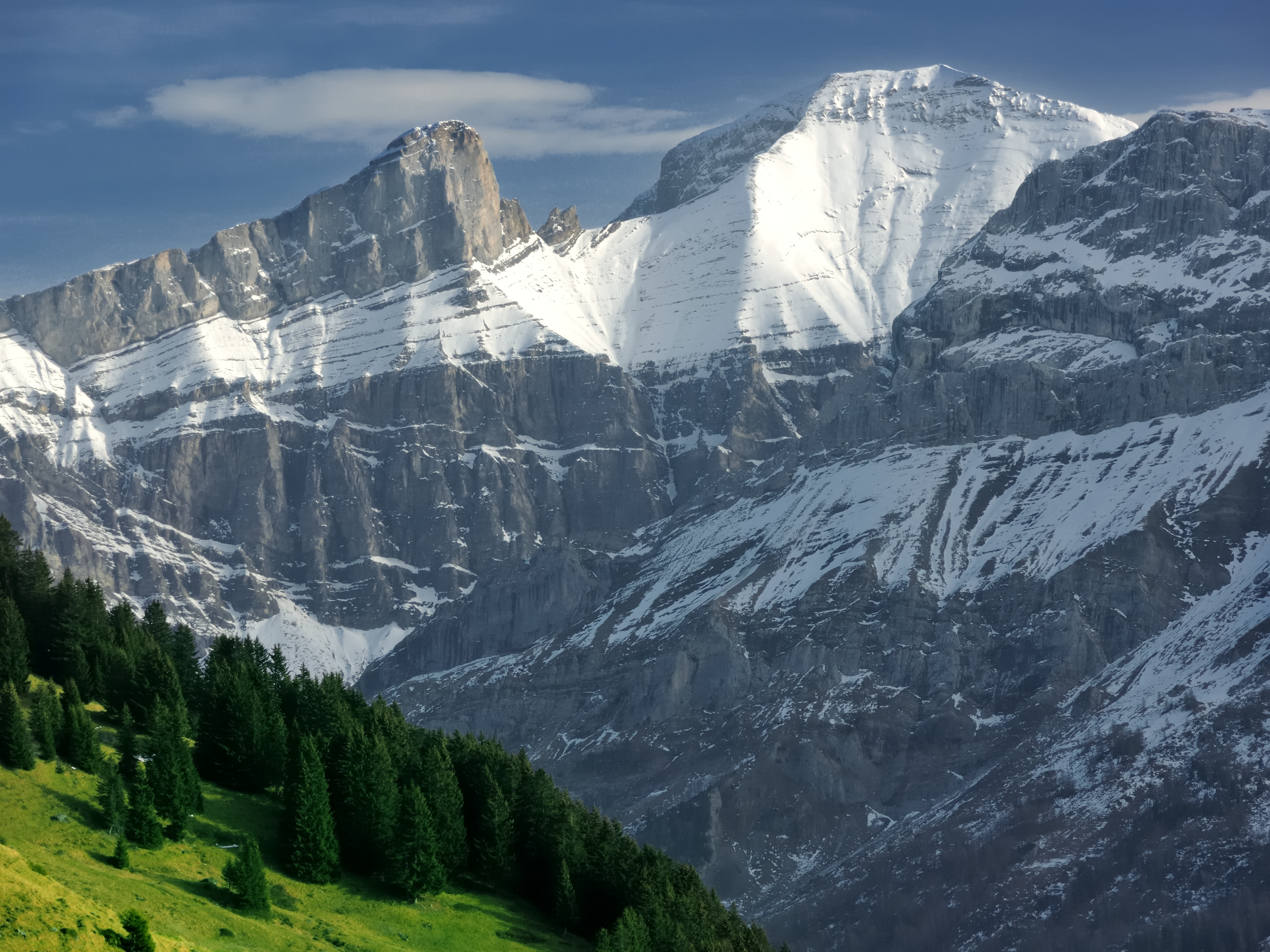 Gstellihorn and Sanetschhorn (Bern-Valais border) from above Les Diablerets (Vaud)